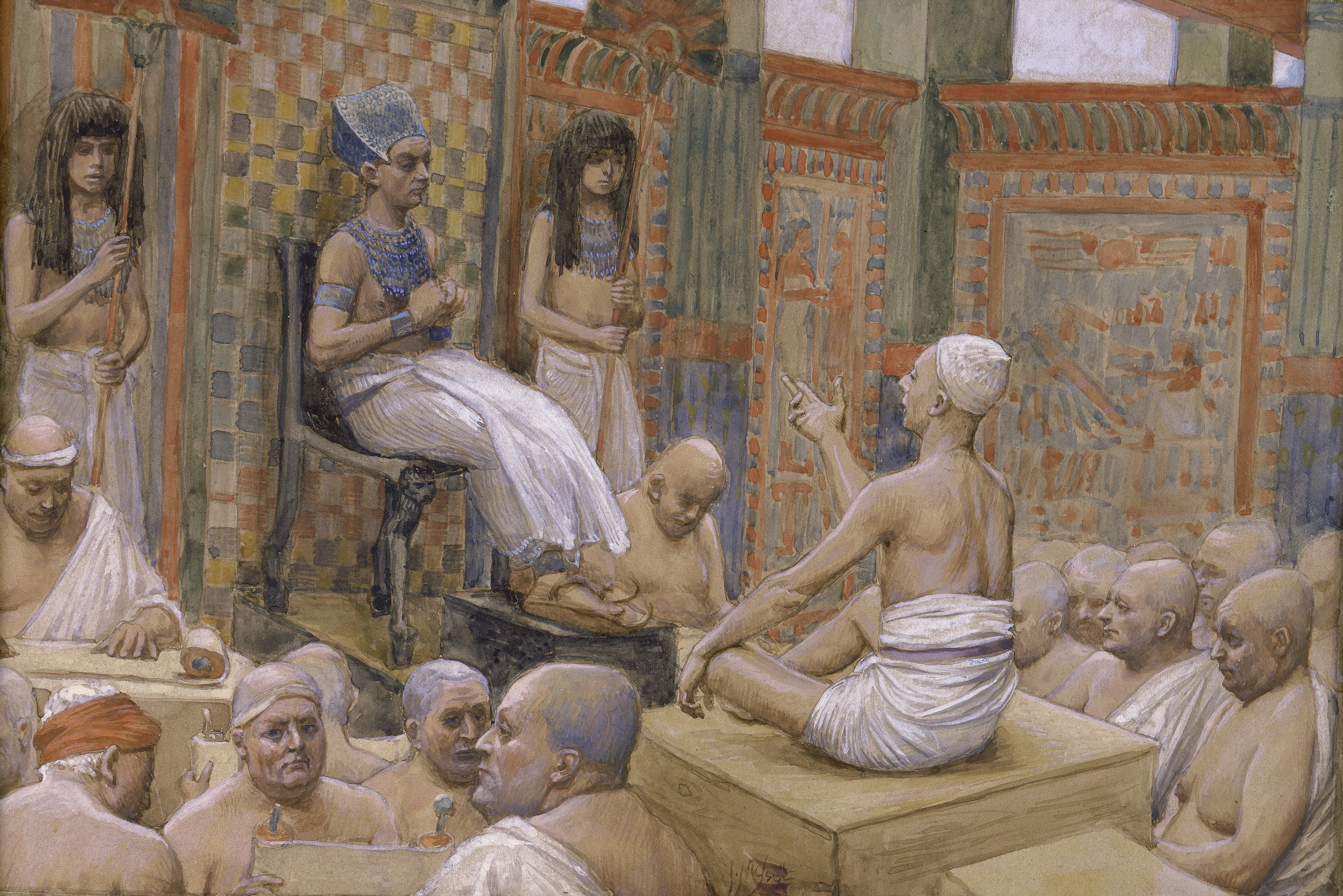 Joseph Interprets Pharaoh's Dream, c. 1896-1902, by James Jacques Joseph Tissot (French, 1836-1902), gouache on board, 5 15/16 x 8 7/8 in. (15.1 x 22.6 cm), at the Jewish Museum, New York